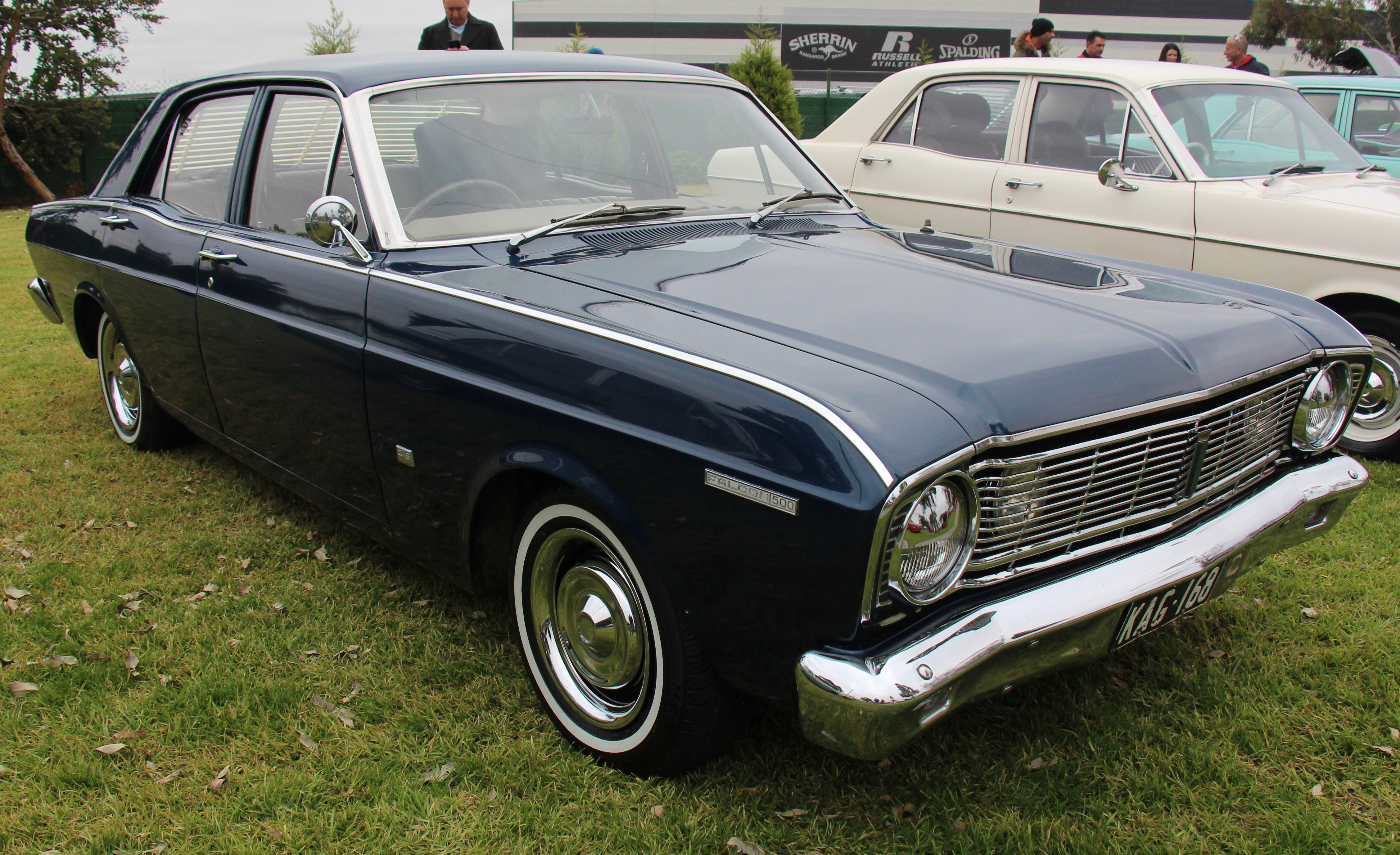 The XT Falcon was built from March 1968-June 1969. The XT was a facelift on the XR with revised plain flat grille, the tail lights remained circular, but the indicators were now horizontal rectangles, instead of the XR’s circles. The main change was under the bonnet, all engine sizes were increased, they were more reliable and more economical A team of three XT Falcon GTs won the Teams prize in the 1968 London-Sydney Marathon, finishing 3rd, 6th and 8th outright Engines; 188 or 221 6s and 302 V8 Sedan; Standard, 500, Fairmont and GT Wagon; Standard, 500 and Fairmont also Utility and Panel Van